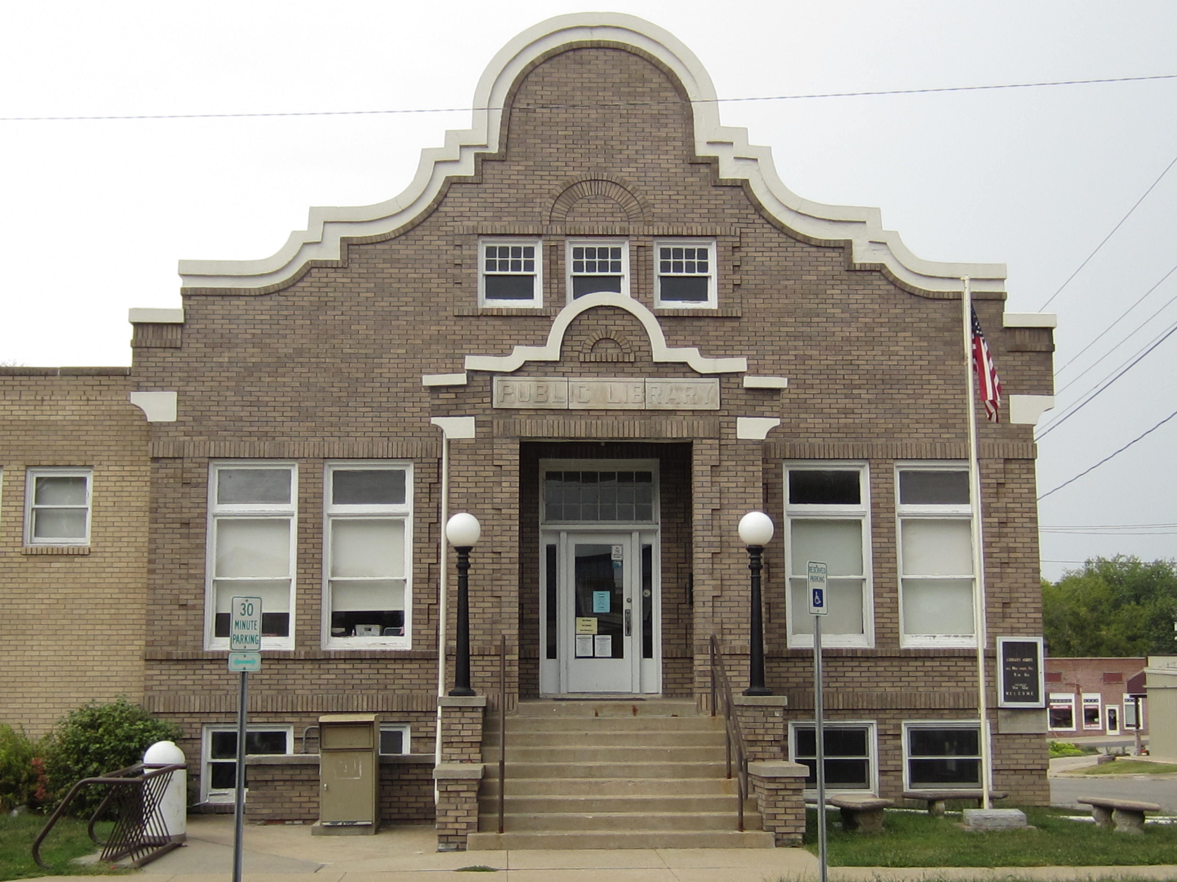 Andrew Carnegie funded public library, Fayette, MO. (2013) It is a contributing property in the Fayette Courthouse Square Historic District.